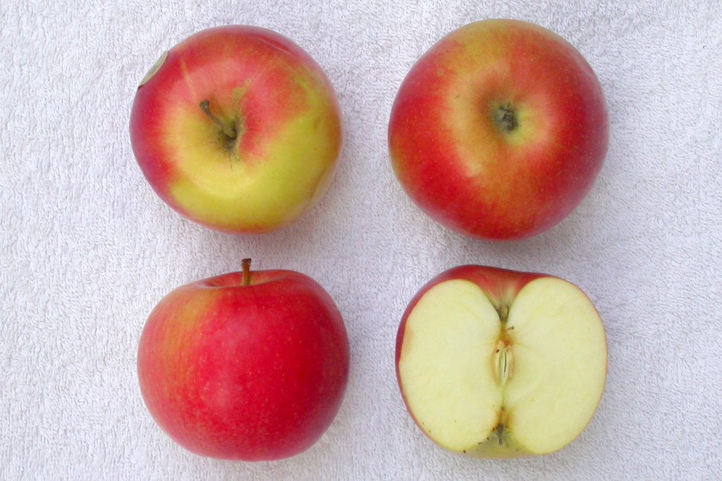 Pomme Idared - Idared apples